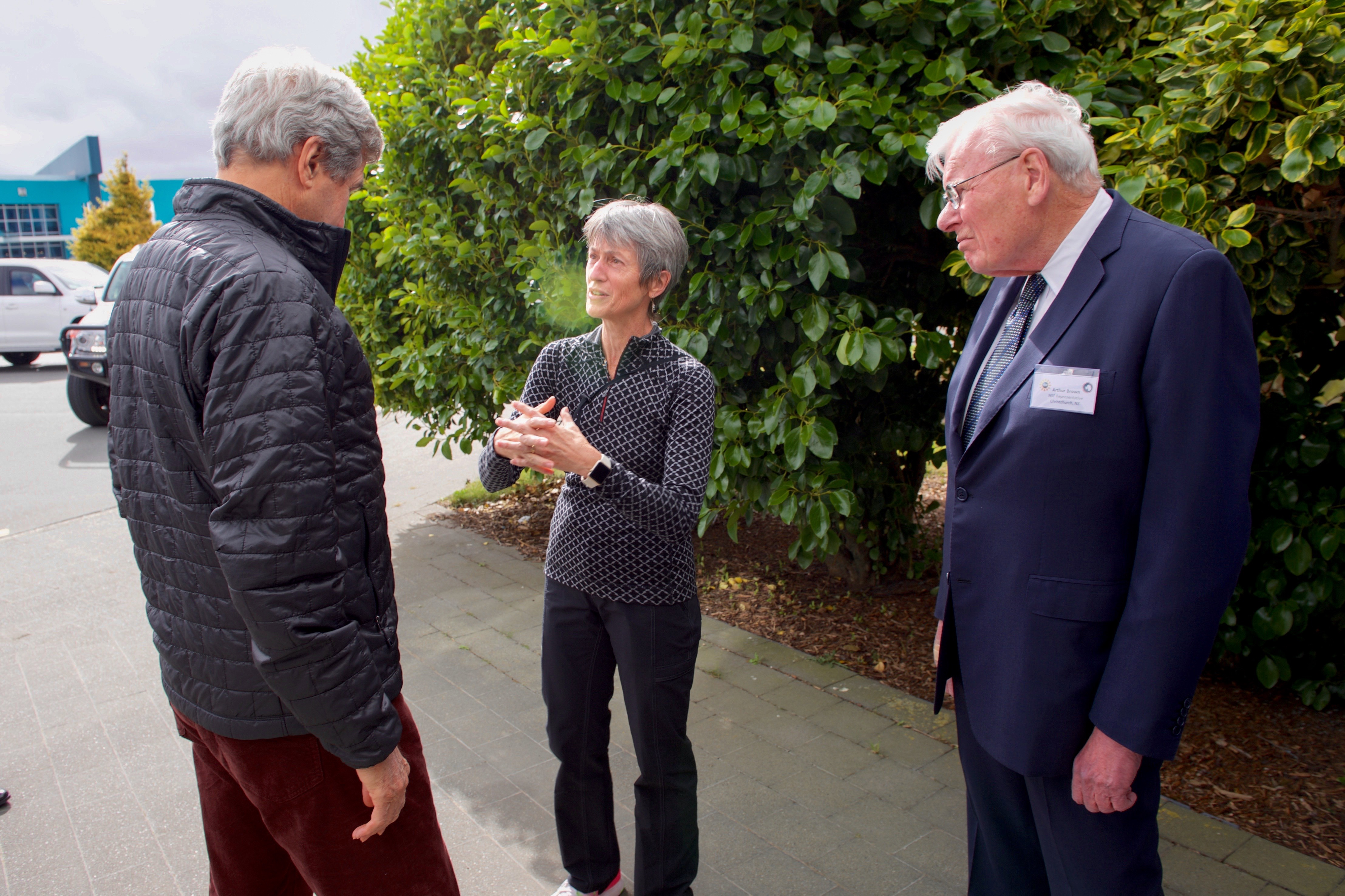 U.S. Secretary of State John Kerry chats with Dr. Kelly Falkner, Director of the National Science Foundation's Polar Programs Division, on November 10, 2016, outside the International Antarctic Center in Christchurch, New Zealand, before being fitted with extreme weather gear for a planned trip to Antarctica and the South Pole. [State Department Photo/ Public Domain]